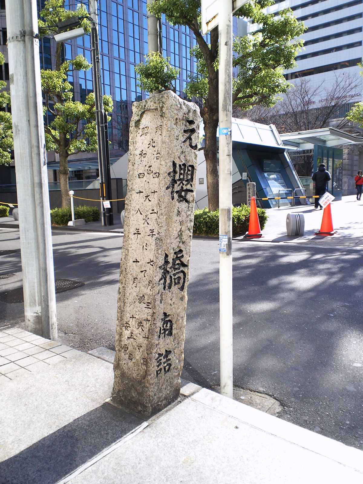 Sakurabashi, Osaka, Japan